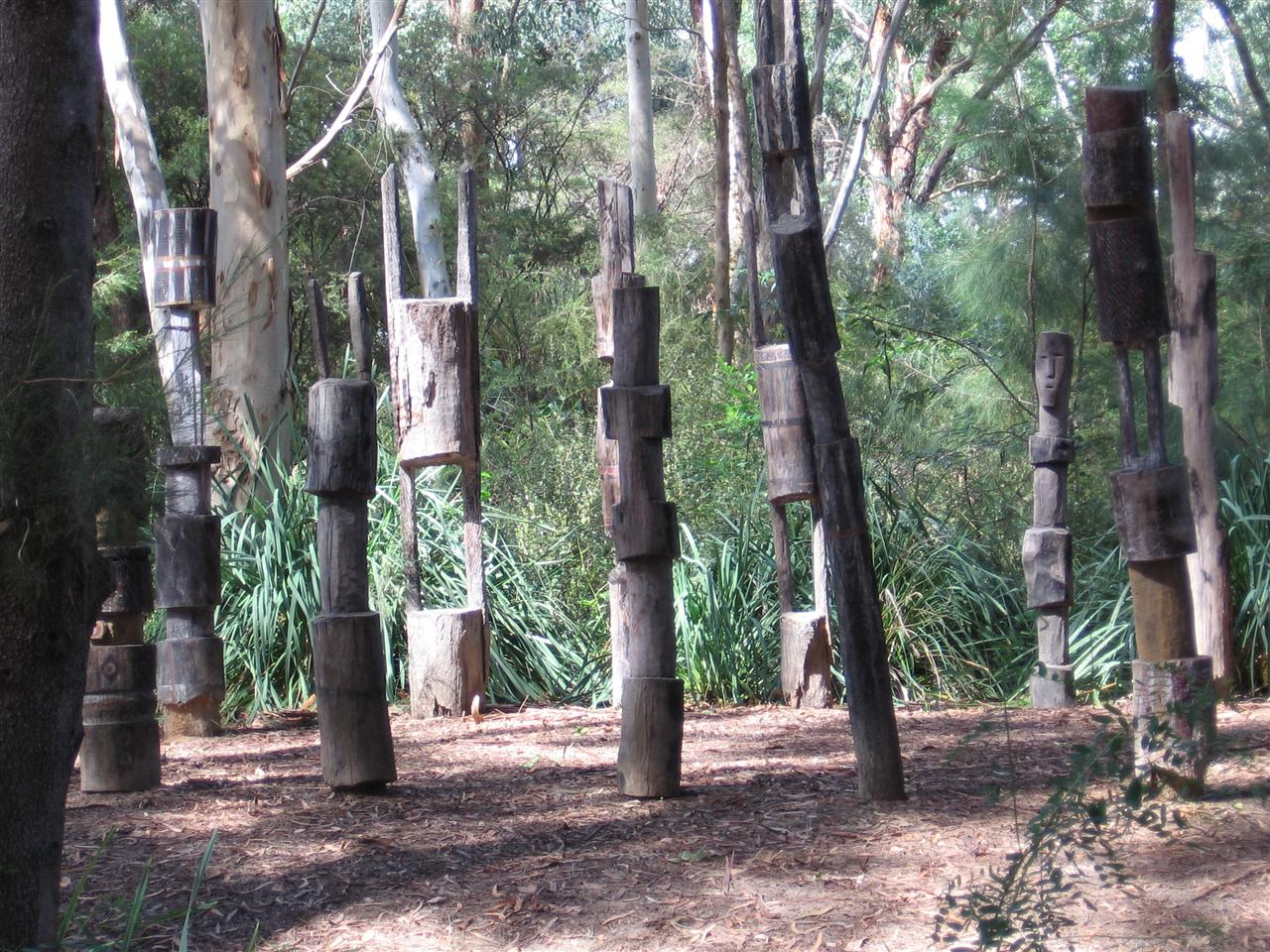 Wooden sculptures by Willy Tasso and unknown artists of Vanuatu, c. 1970. Sculpture Garden of the National Gallery of Australia in Canberra.